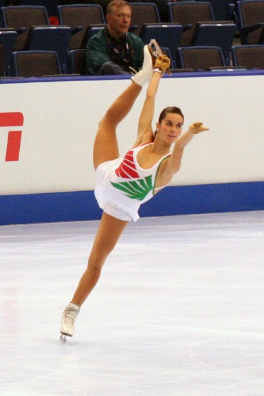 Valentina Marchei performs a spiral at the 2006 Skate America.